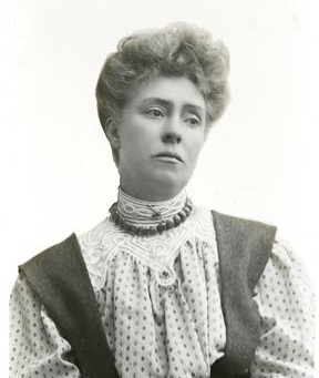 Minnie Baldock 1909: Photograph by Colonel L. Blathwayt. He was the father of Mary Blathwayt and they lived at Eagle House in Somerset. The pictures were taken between 1909 and 1911